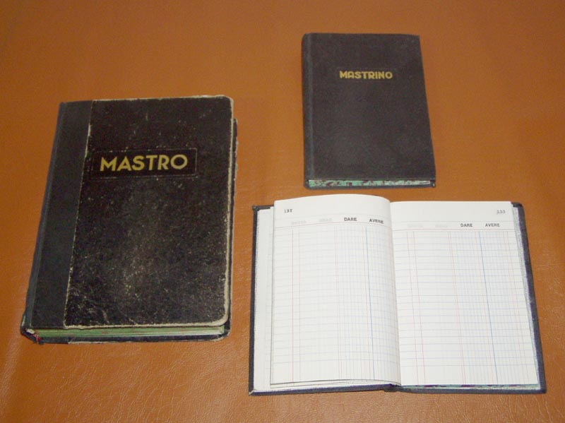 Ledger